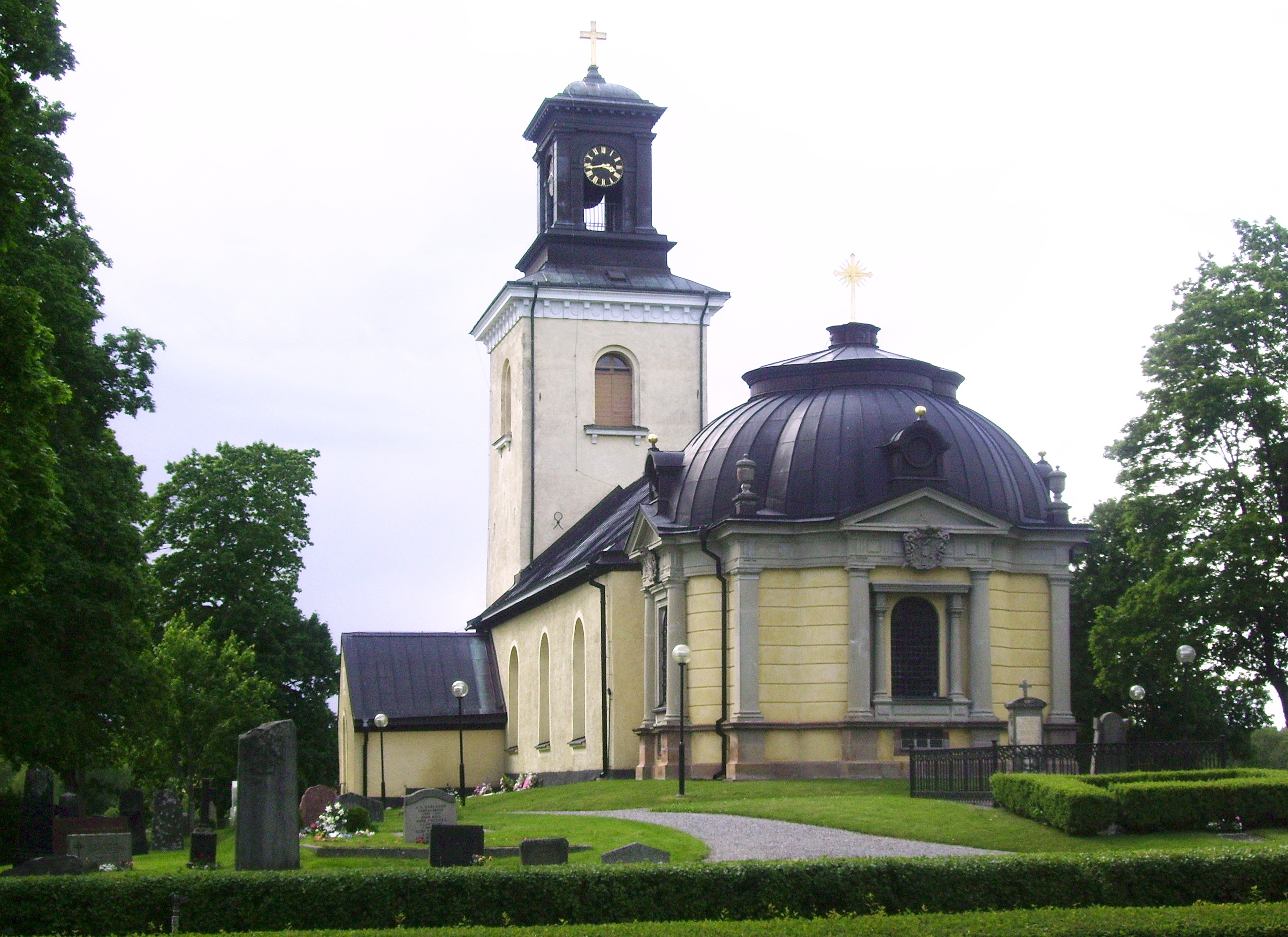 Picture of Turinge kyrka in Nykvarns kommun